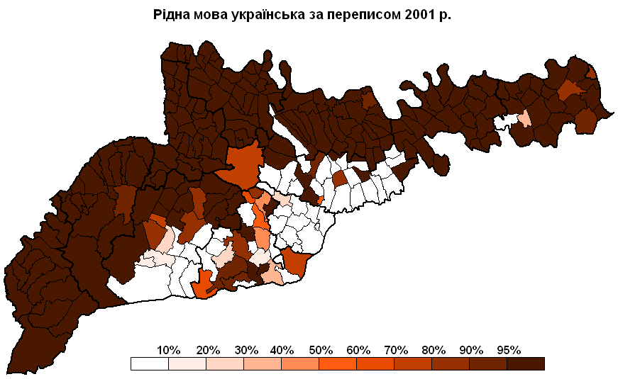 Ukrainian as native languages in Chernivetska oblast, 2001 census